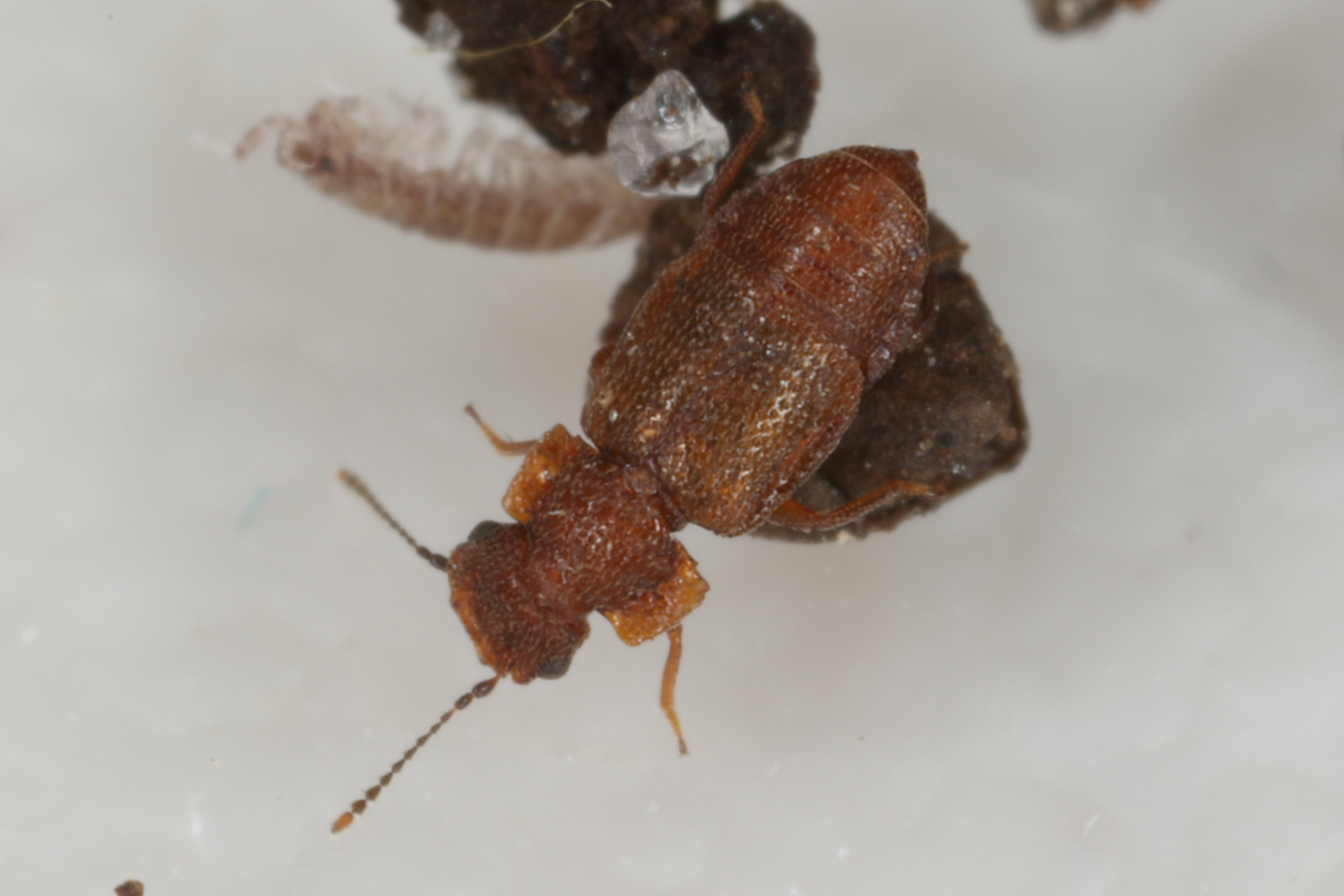 Metopsia similis Zerche, 1998, sifted from leave litter (mainly pine), Søborg, Denmark, 10 April 2016